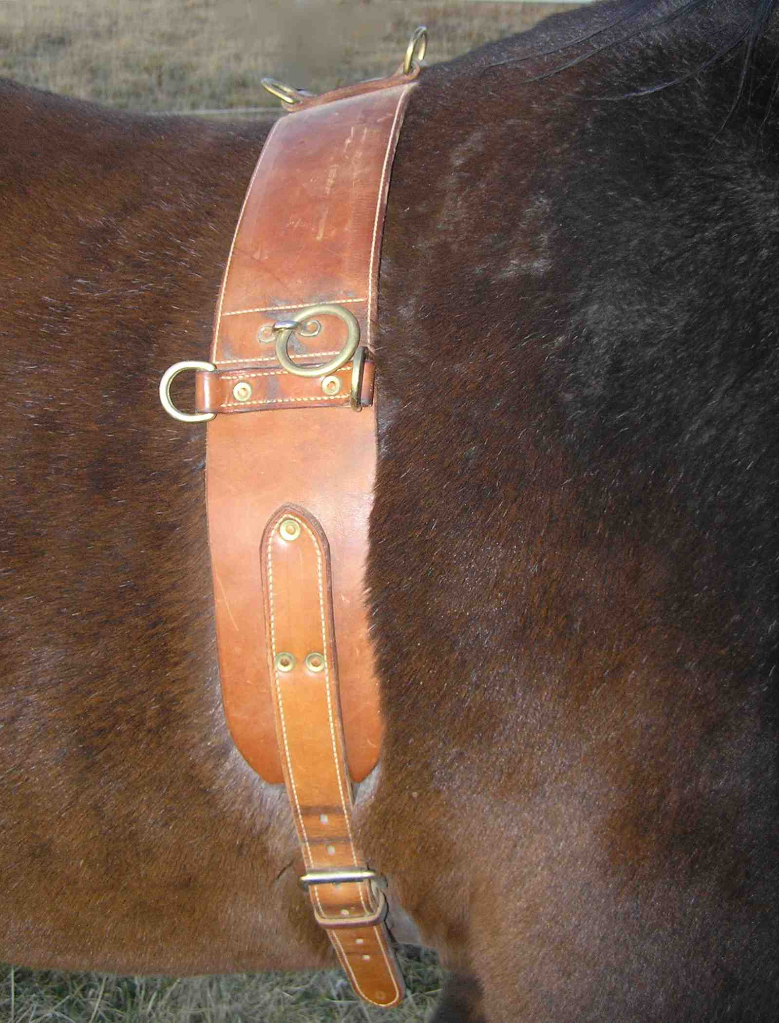 Detail of a surcingle (sometimes called a roller) on a horse